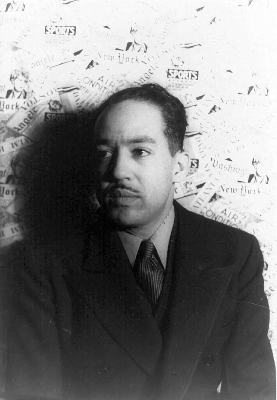 [Portrait of Langston Hughes, 3/4 profile]